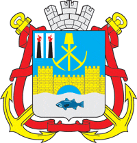 Nikolaevsk-na-Amure (Khabarovsk kray), coat of arms (1912)